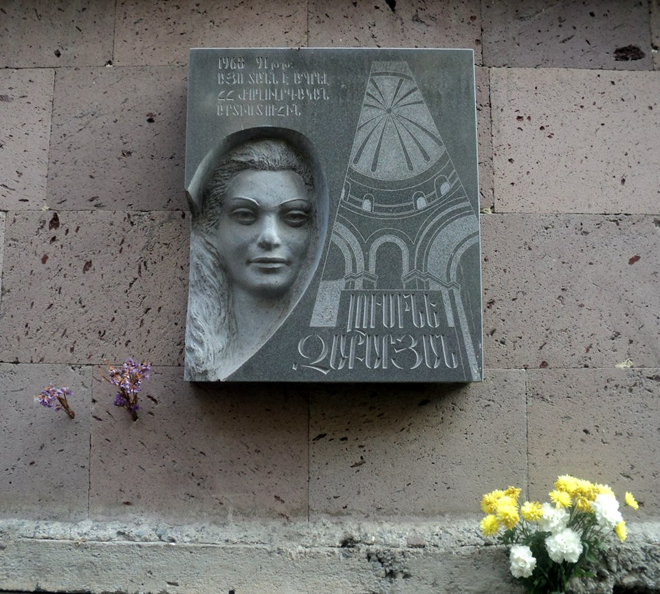 Lusine Zaqaryan Plaque